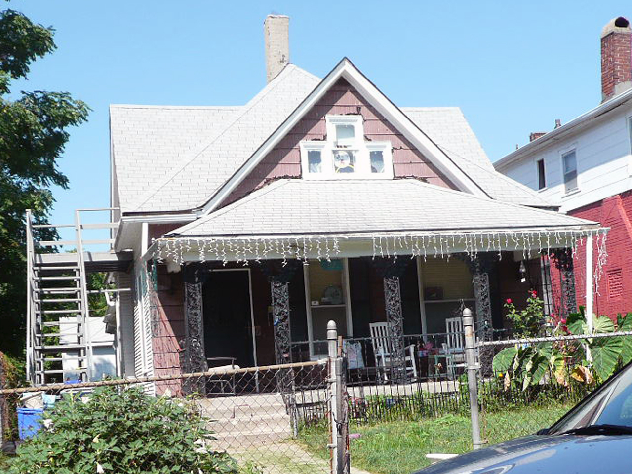 Walt Disney House